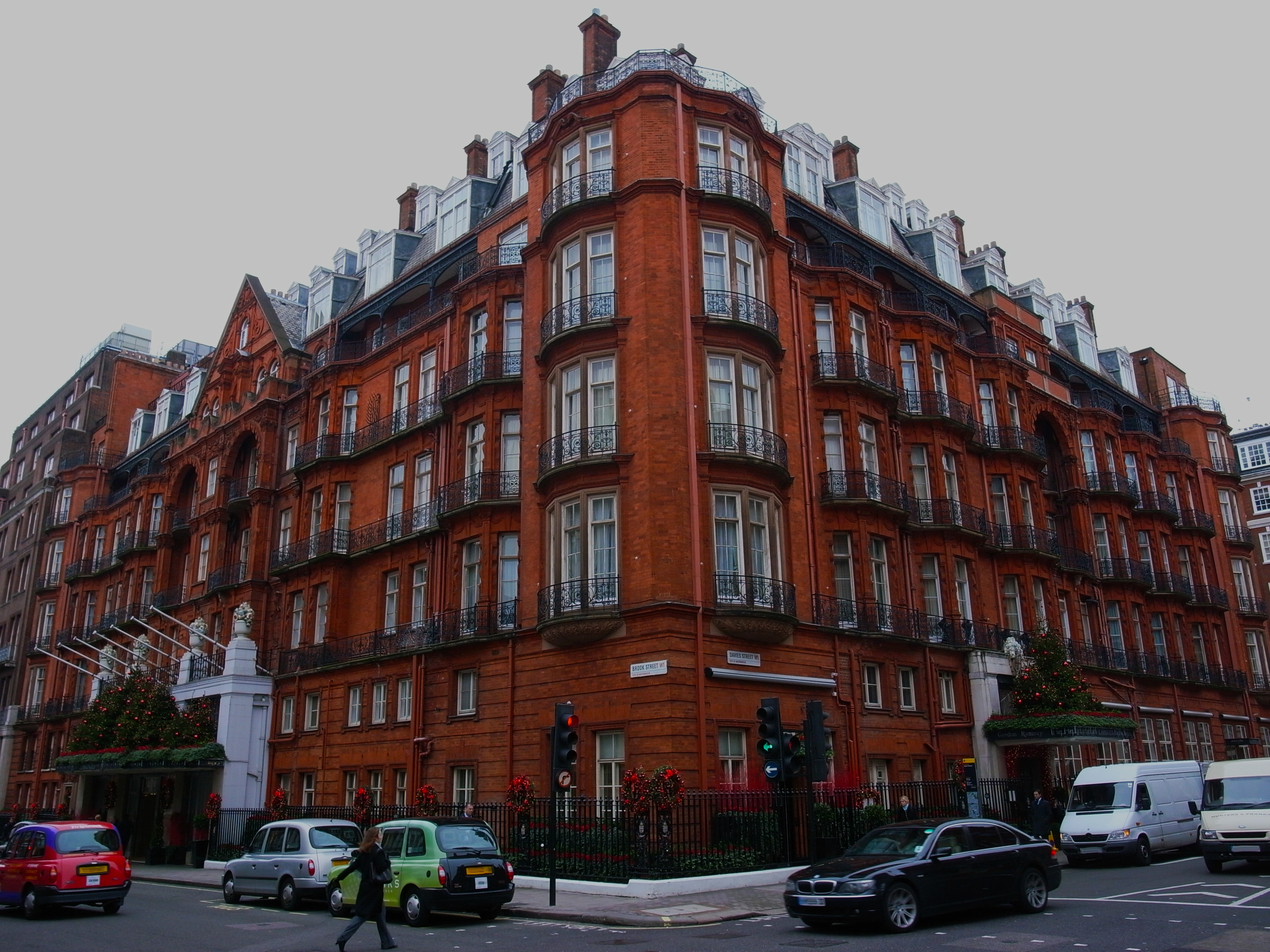 Claridge's Hotel in Brook Street, London, England. Enhanced for colour and obfuscation of vehicle plates.